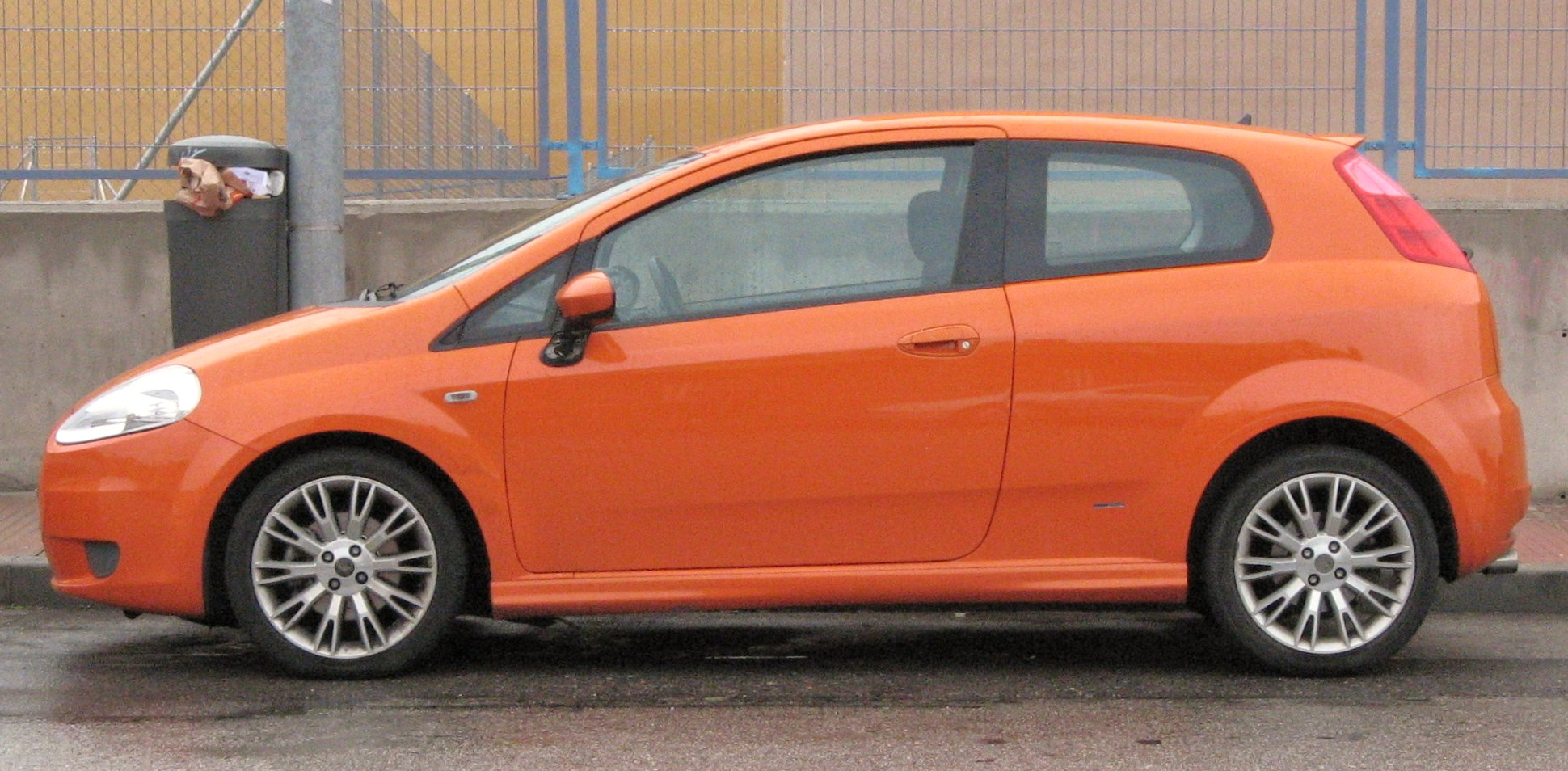 2007 Fiat Grande Punto Sport